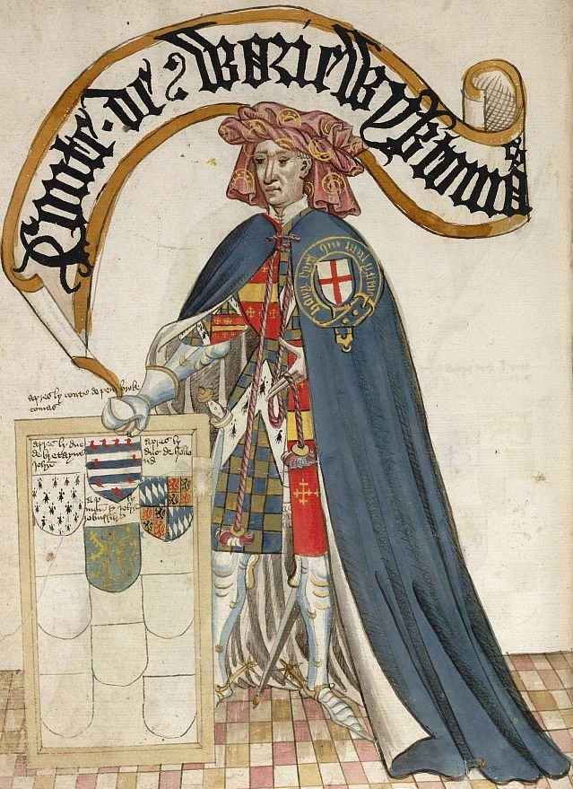 Thomas Beauchamp, Earl of Warwick, KG, from the Bruges Garter Book, 1430/1440, BL Stowe 594. Blason: Quarterly, 1 & 4: Gules a fess Or between six cross crosslets Or (for Beauchamp); 2 & 3: Checky Azure and Or a chevron Ermine (for Newburgh/Beaumont Earls of Warwick).